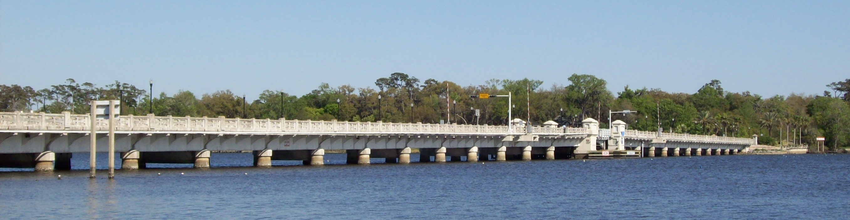 Ortega River Drawbridge at Grand Ave. (Florida State Road 211), Jacksonville, Florida. Photograph by Subwayatrain.